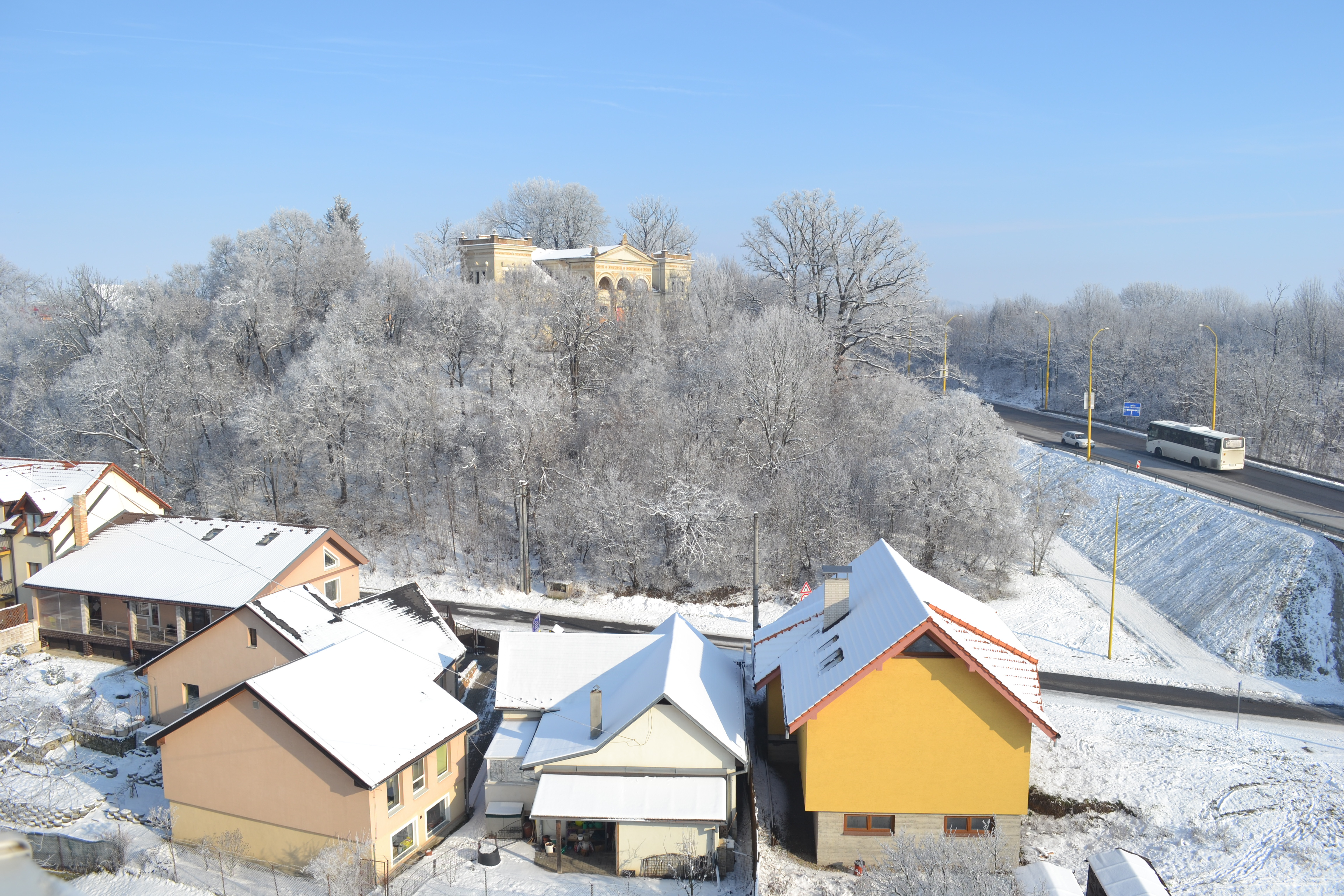 Magic winter under manor-house in Opatova